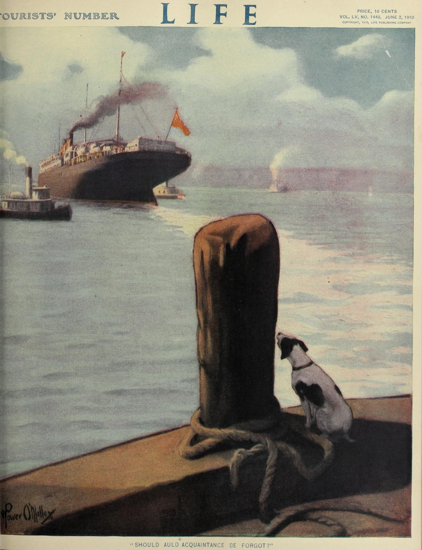 cover of Life magazine. "Should Auld Acquaintance be Forgot?"